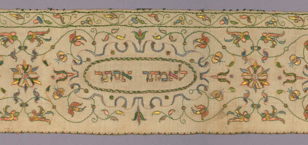 Description: Torah binder. Hebrew inscriptions: "Please accept my prayer; Let me come to your House; With prayer and supplication; God should establish it; Oh God save now; To your servant Esther, the wife of R. ; Abraham B. Sch; in the year 362" To see a high-quality digital reproduction of this binder with zoom feature, click here. Object Origin: Italy Medium: Linen Date: 1602 Persistent URL: Repository: Yeshiva University Museum, 15 West 16th Street, New York, NY 10011 Parent Collection: Max Stern Collection Call Number: 1987.078 Rights Information: No known copyright restrictions; may be subject to third party rights. For more copyright information, click here. See more information about this image and others at CJH Digital Collections. Digital images created by the Gruss Lipper Digital Laboratory at the Center for Jewish History